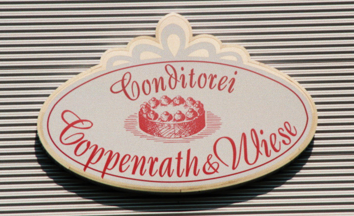 Conditorei Coppenrath & Wiese Signature, Mettingen, Germany